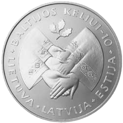 50 litas coin issued to mark the 10th Anniversary of the Baltic Way Silver Ag 925 Quality proof Diameter 38.61 mm Weight 28.28 g The words on the edge of the coin: VILNIUS RYGA TALINAS (Vilnius Riga Tallinn) Mintage 4,000 pcs Issued 1999 Distribution terminated 2004 Distributed 2,542 pcs The coin was minted at the state enterprise Lithuanian Mint.